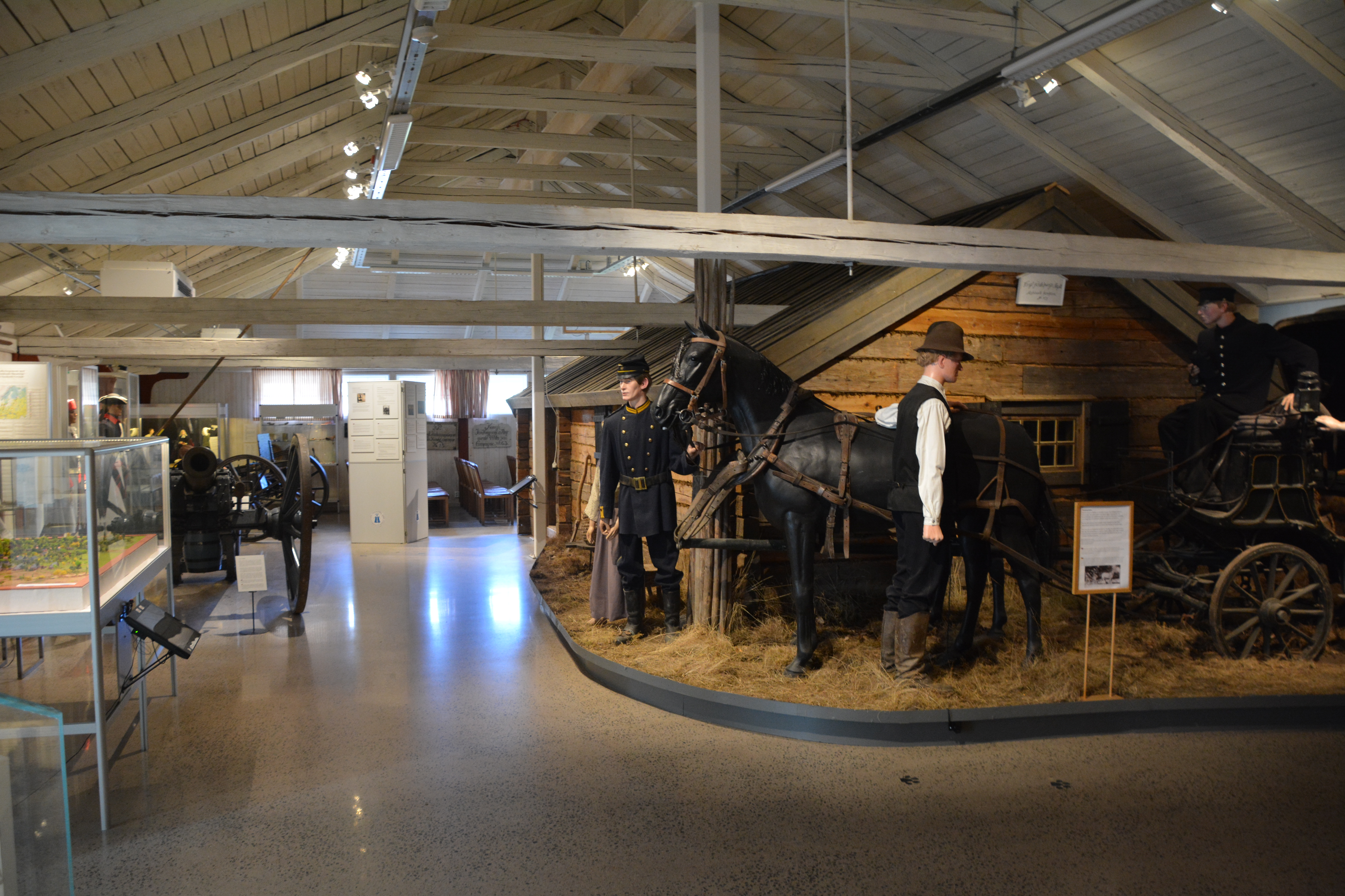 Militärhistoriska museet Miliseum i Skillingaryd